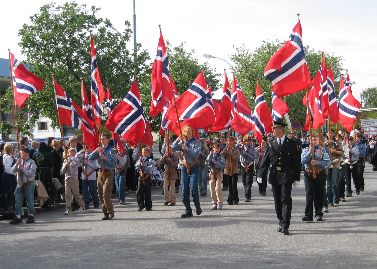 Scouts lead a parade on the 17th of May, Norway's constitution day, holding Norwegian flags. Picture is taken in Sandnes, Norway.